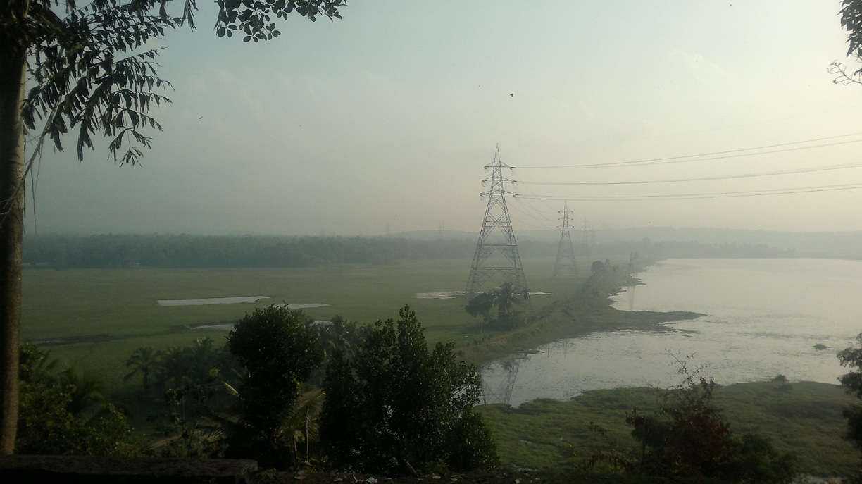 East Kallada